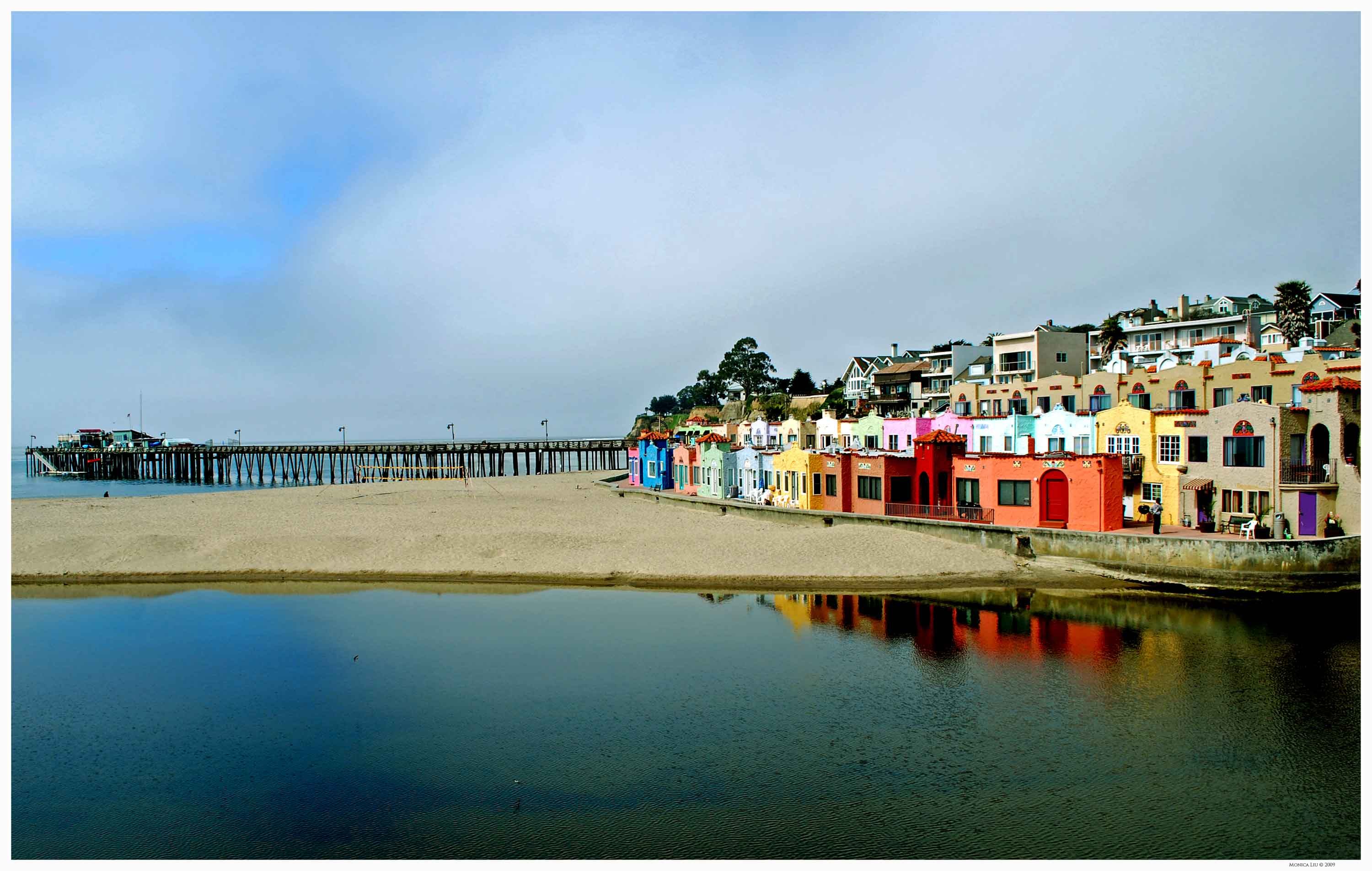 The beach and wharf in Capitola, California, USA